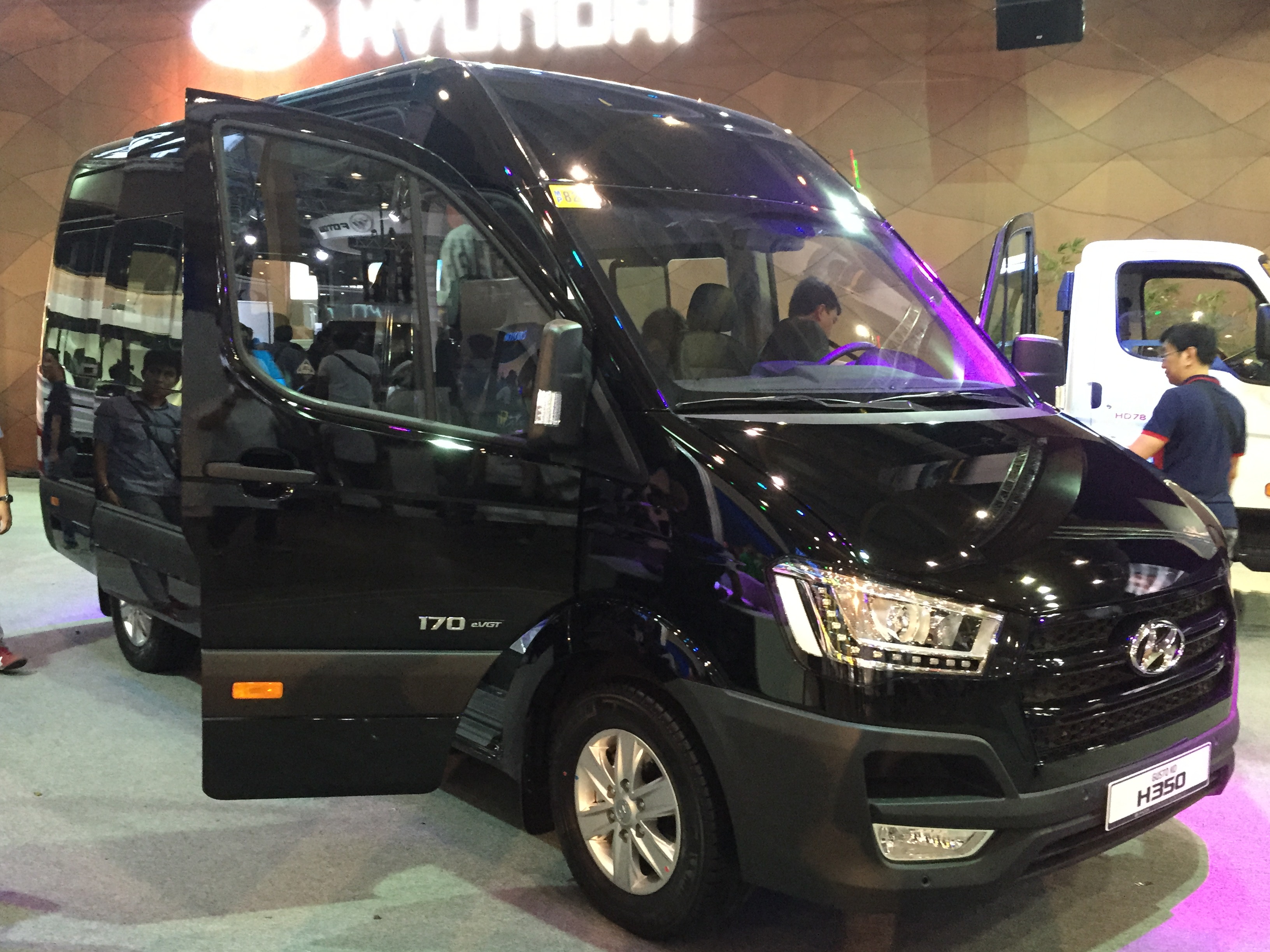 A static display of the Hyundai H350 bus model in the Manila International Auto Show 2016 event.